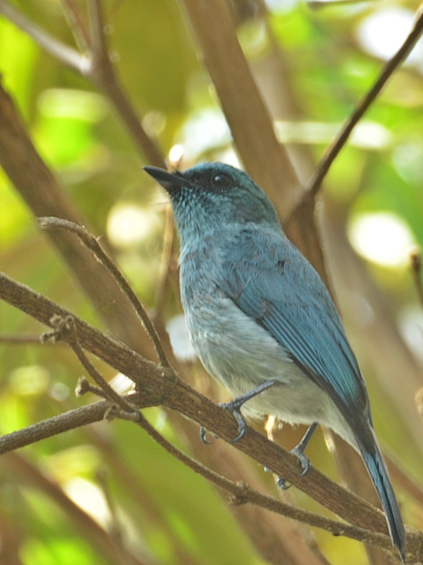 Turquoise Flycatcher (Eumyias panayensis) at Mount Mahawu, North SulawesiBahasa Indonesia: Sikatan pulau (Eumyias panayensis) di Gunung Mahawu, Sulawesi Utara